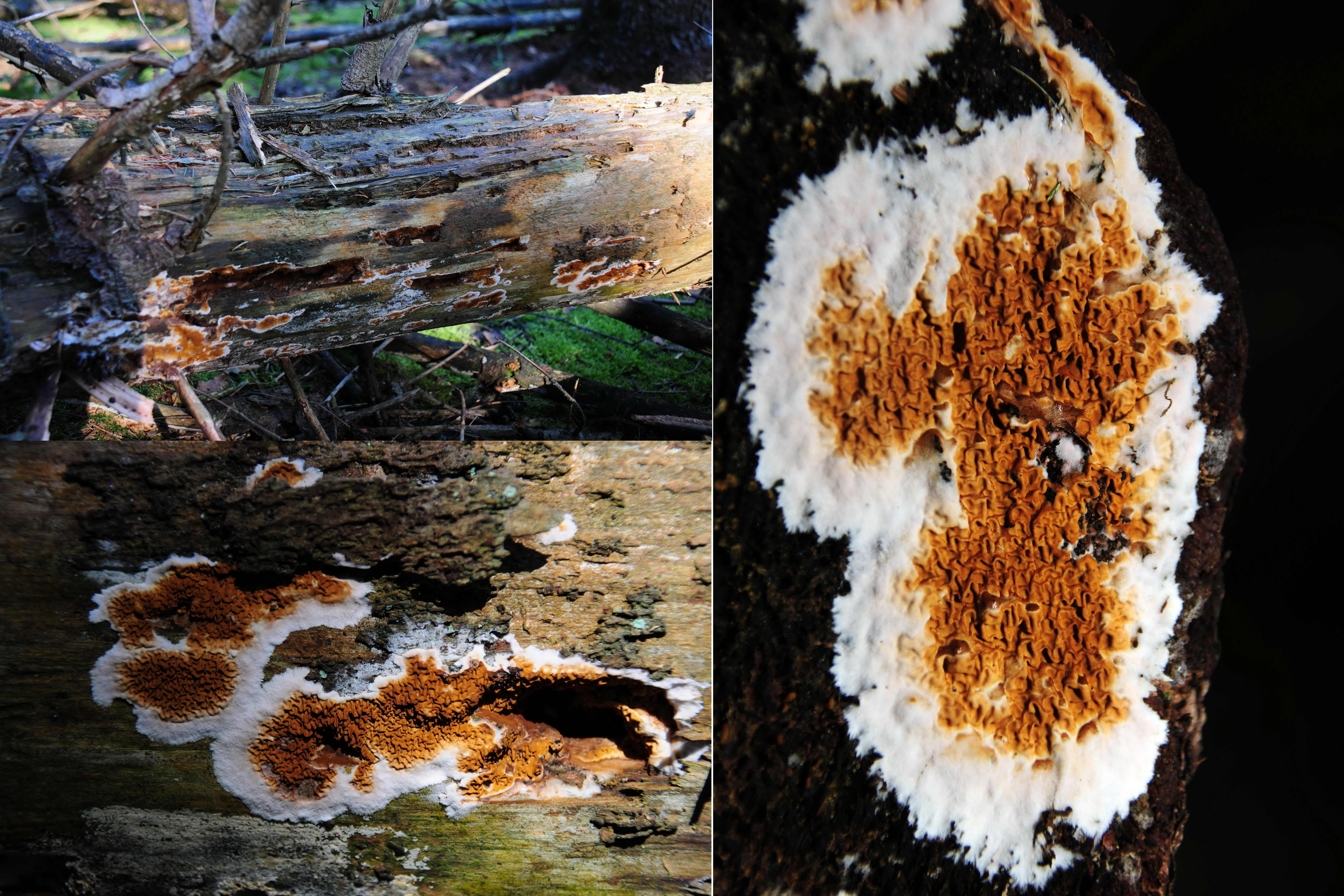 Serpula himantioides (GB= no common name, D= Wilder Hausschwamm, F= Mérule des maisons, Syn. Lèpre des maisons, NL= Dakloze huiszwam), causes brownrot in a fir forest NP Hoge Veluwe